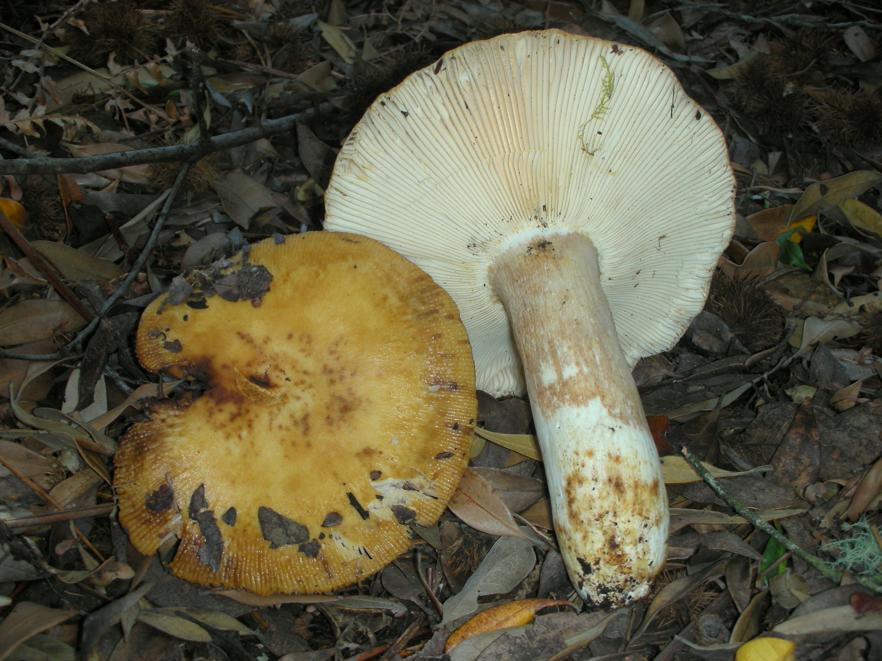 Russula fragrantissima